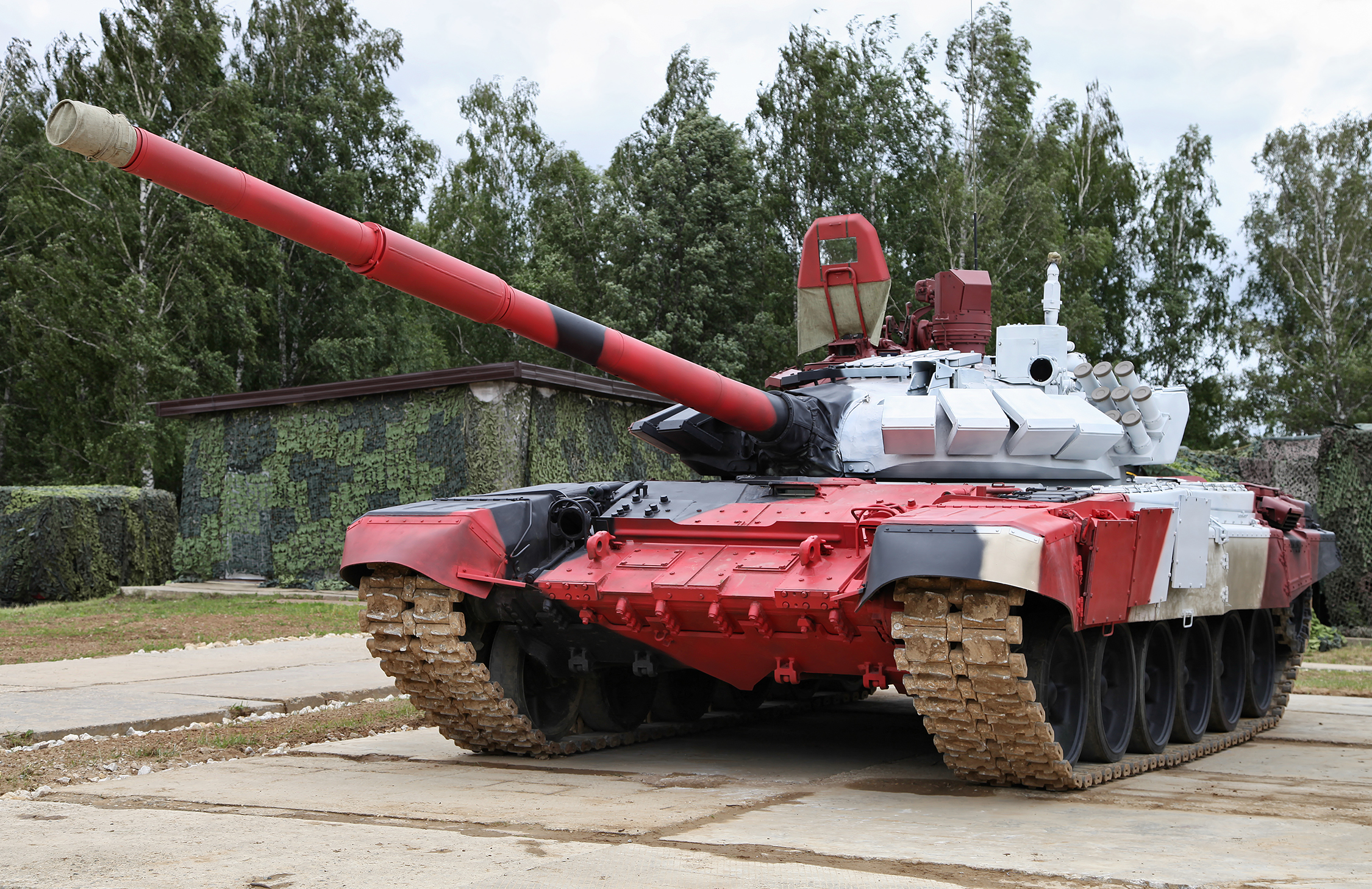 T-72B3 mod. 2014 (also sometimes called T-72B3M) tank - a special version of T-72B3 for tank biathlon. The main differences: panoramic commander sight, increased engine power, automatic transmission and drive control system. I could call it digitalized version. Painted in biathlon livery.